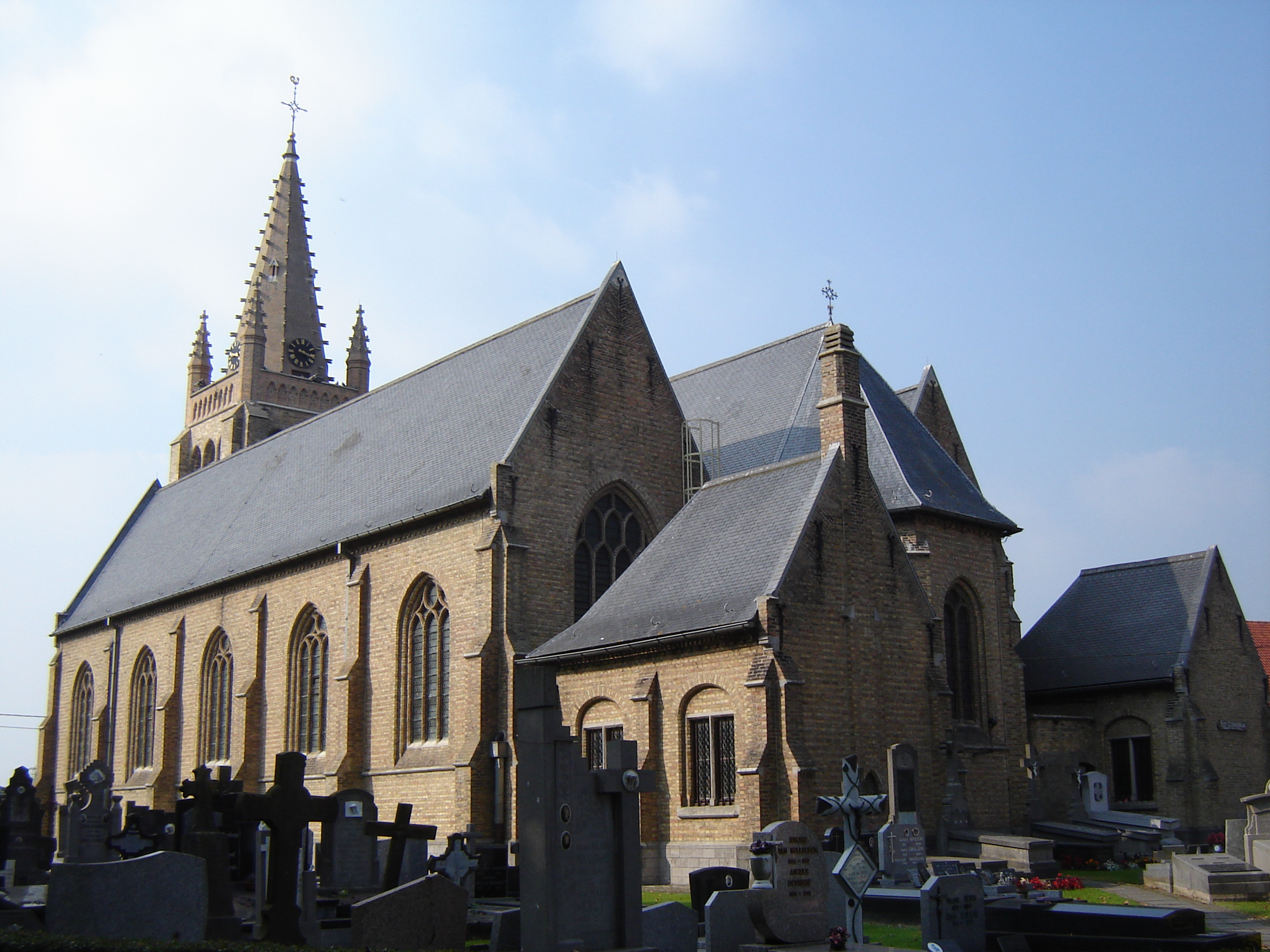 Church of Saint Leonard in Zuidschote. Zuidschote, Ieper, West Flanders, Belgium